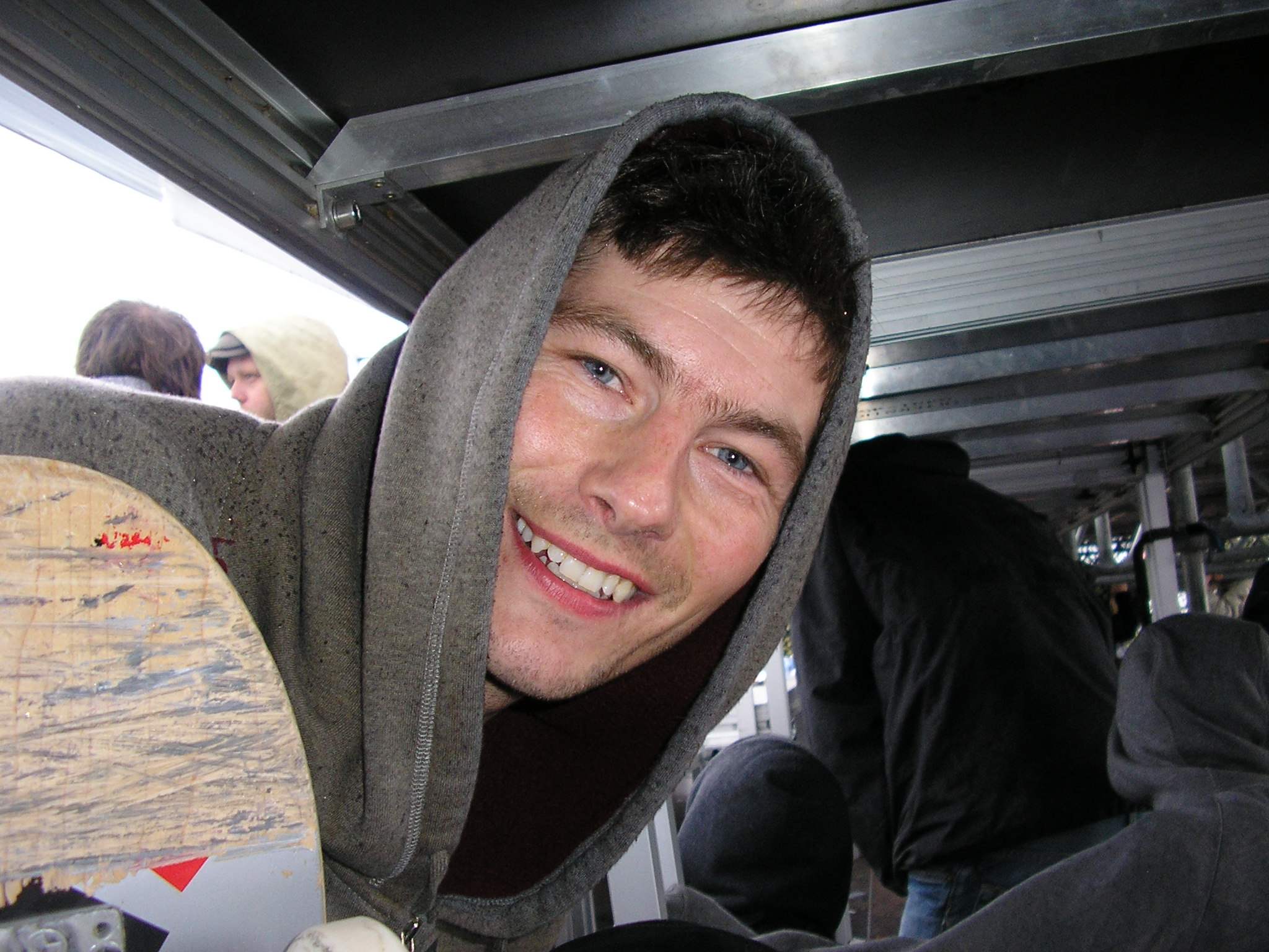 Picture of Rune Glifberg, taken in May, 2006, at "Quiksilver Bowlriders 06" in Malmö, Sweden. Taken by Jakob Johannesson.